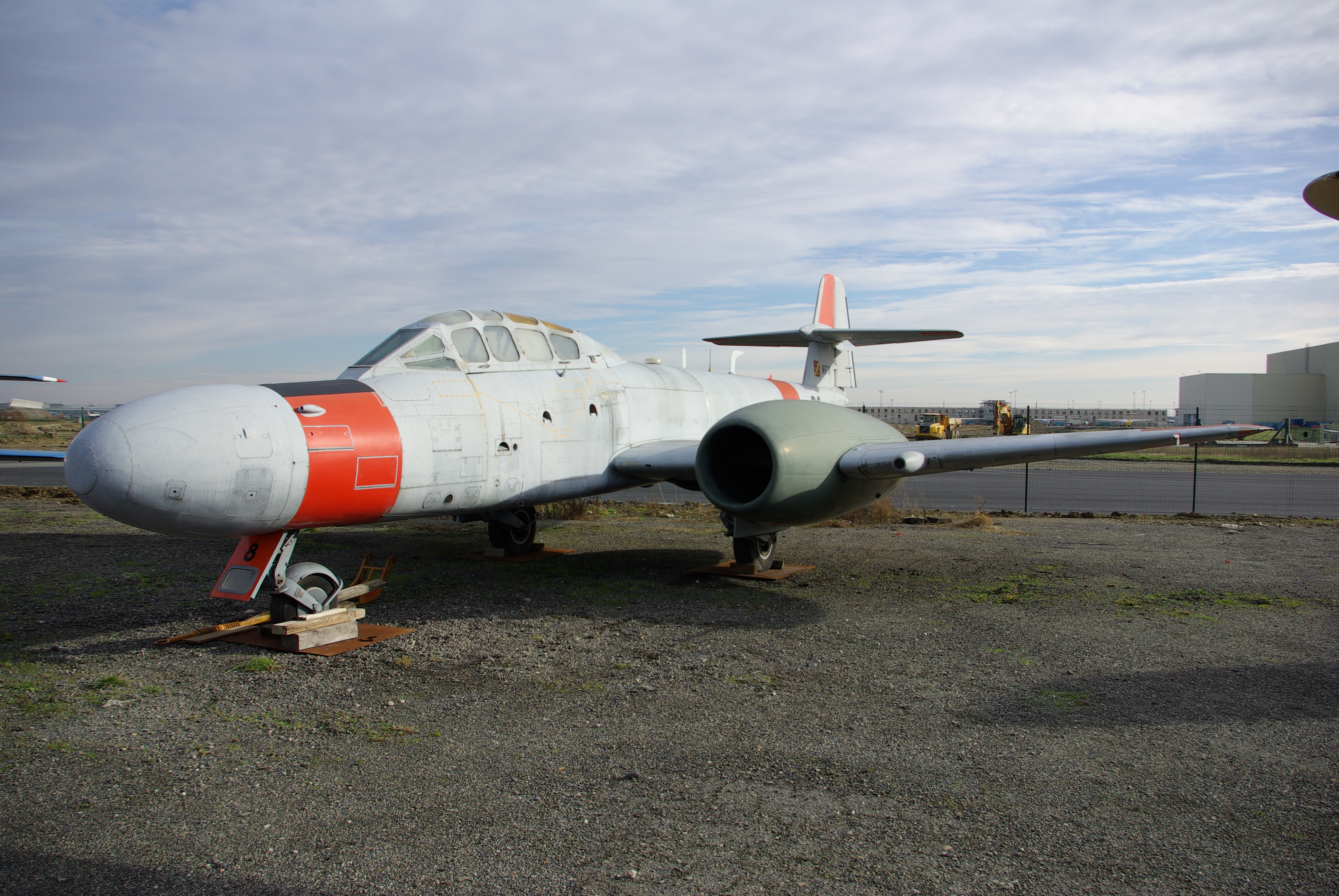 A Gloster Meteor NF.11 displayed at the musée des ailes anciennes (Toulouse, France)